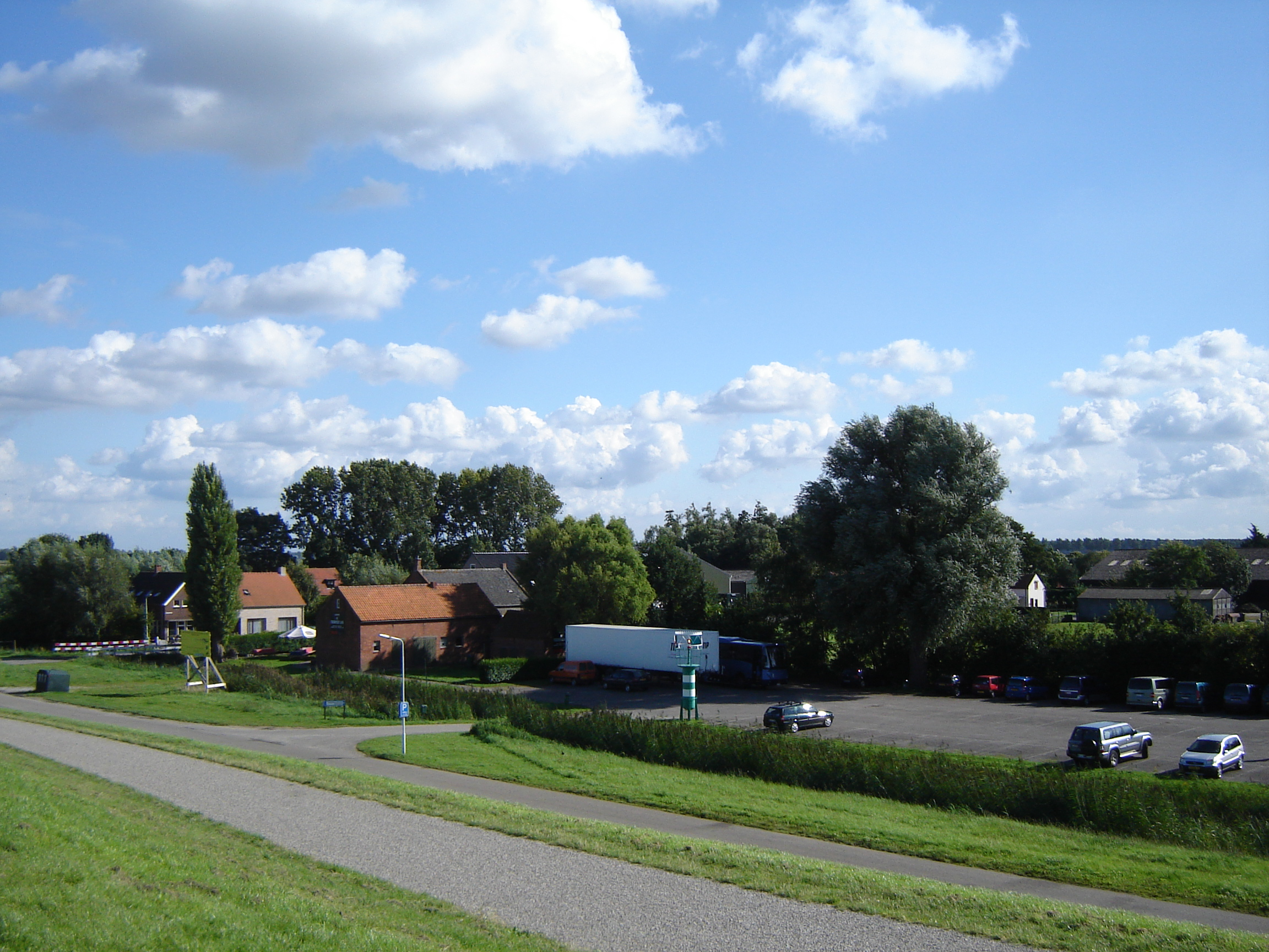 View on the hamlet of Emmadorp. Emmadorp, Hulst, Zeeland, Netherlands.